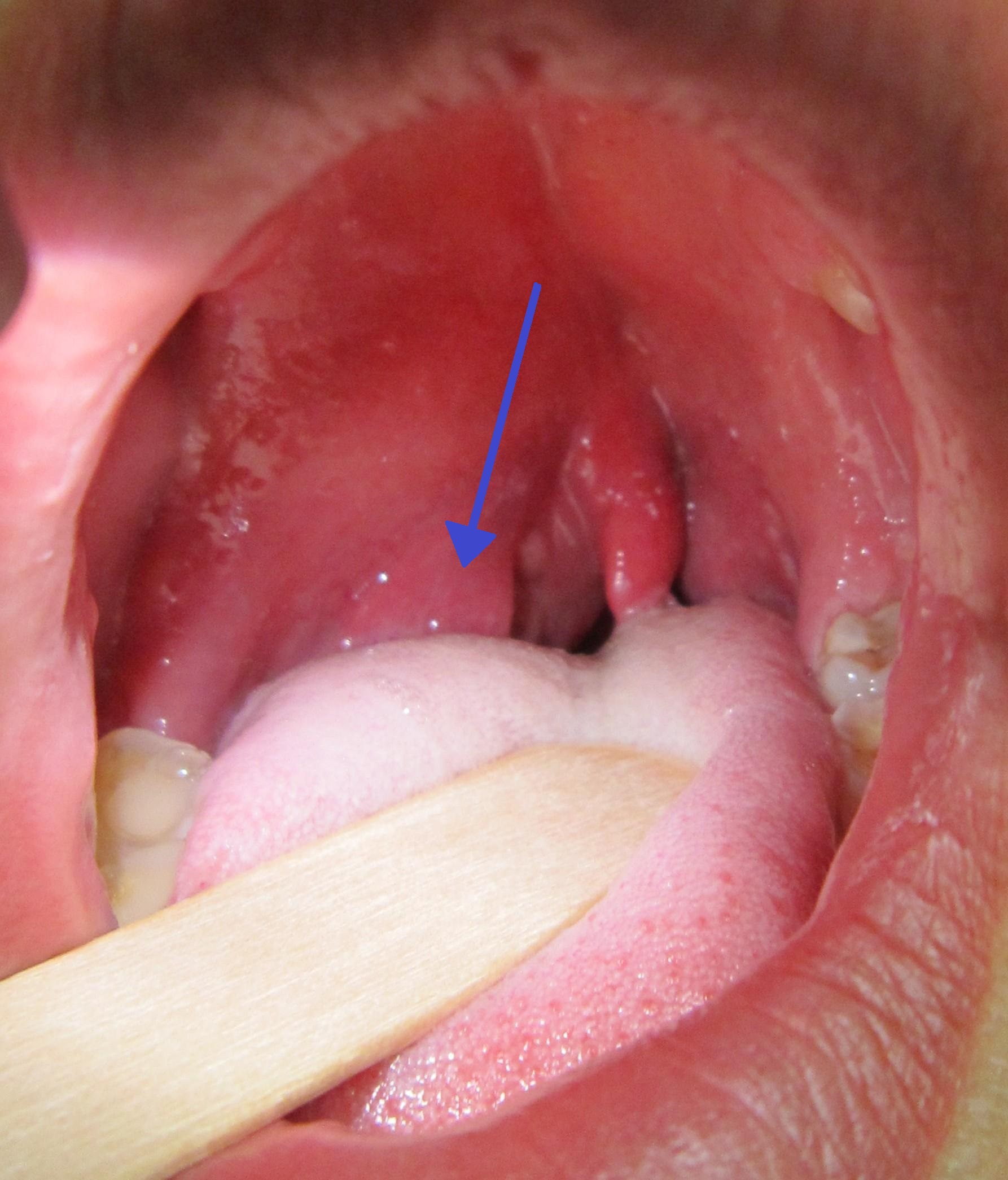 A right sided peritonsilar abscess